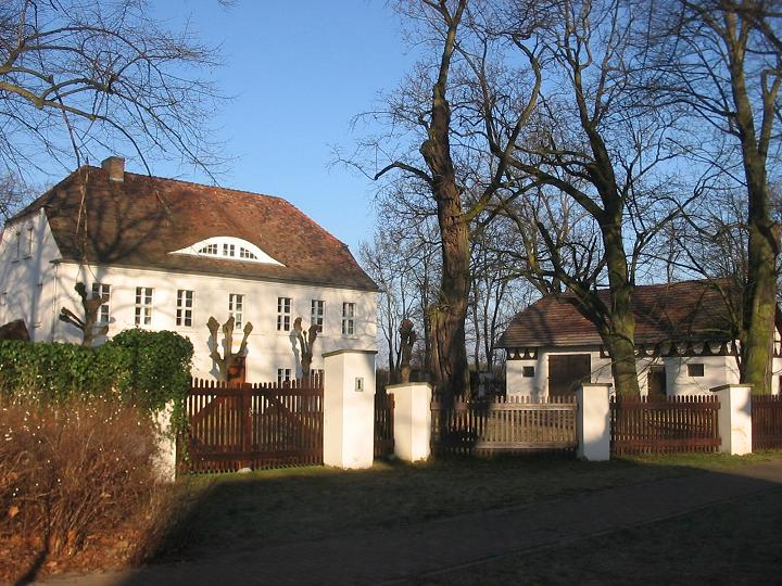 Listed manor house Friedrichshuld in Philippsthal. Built in 1765, restyled around 1800. The village Philippsthal is a part of the municipality Nuthetal in the district Potsdam-Mittelmark, state Brandenburg, Germany.